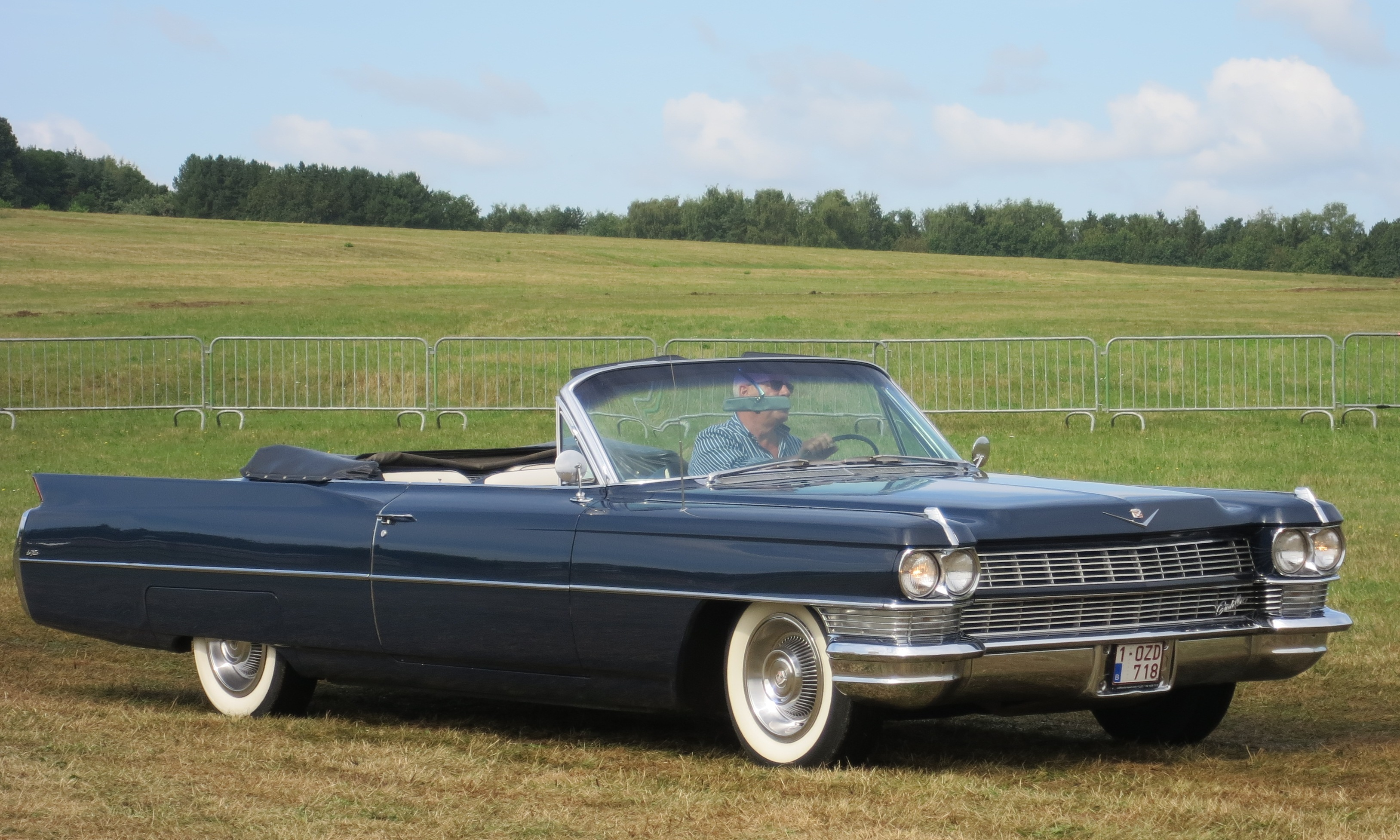 Cadillac cabriolet in Belgium